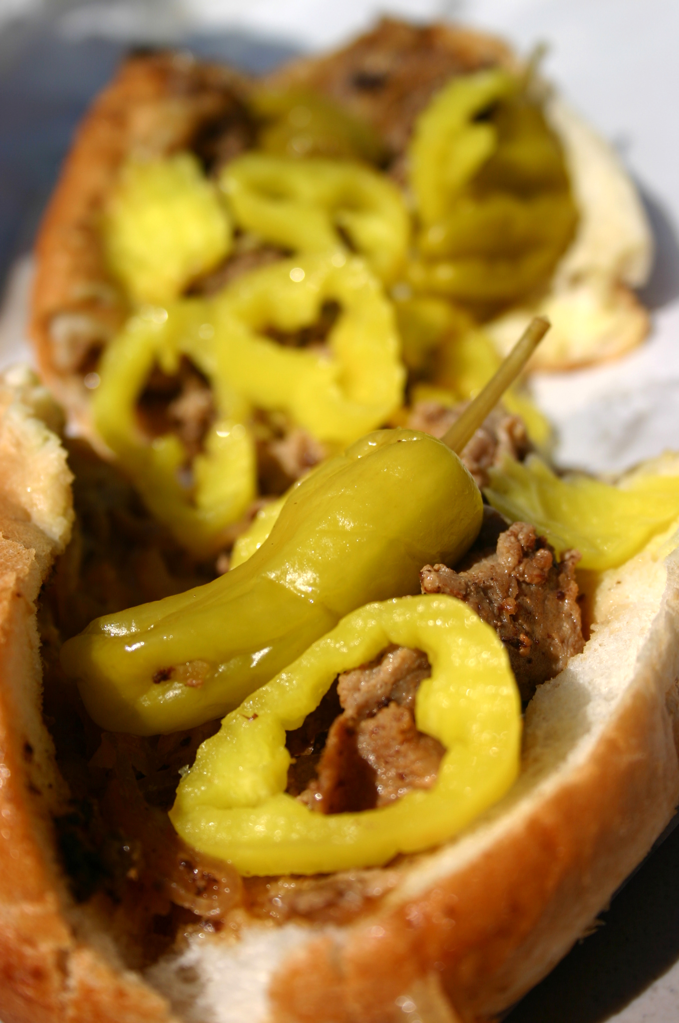 Cheese steak sub from Kappy's in Maitland